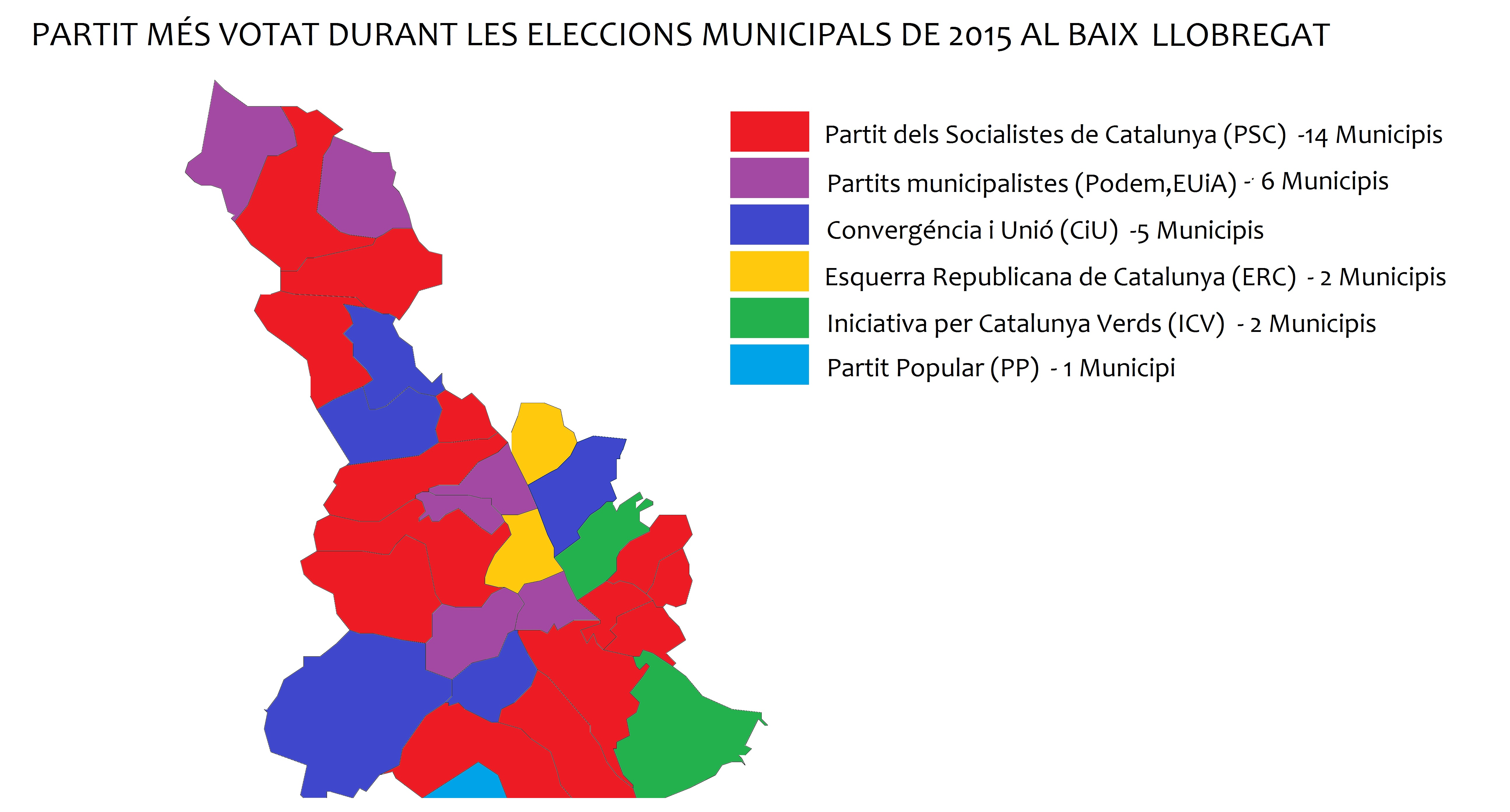 Catalonia,Spain